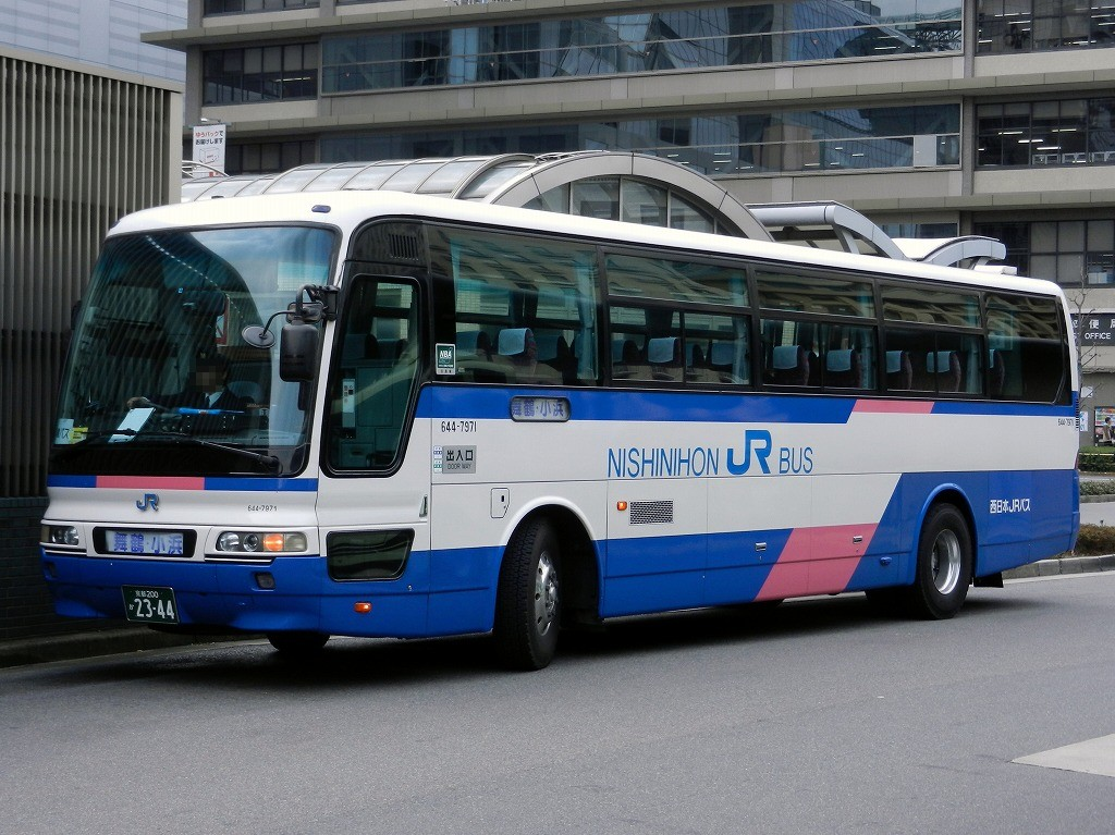 Nishinihon JR bus Mitsubishi Fuso Aero bus (KC-MS829P)highwaybus "Wakasa-Maizuru express kyoto"(Kyoto-Maizuru,Obama)